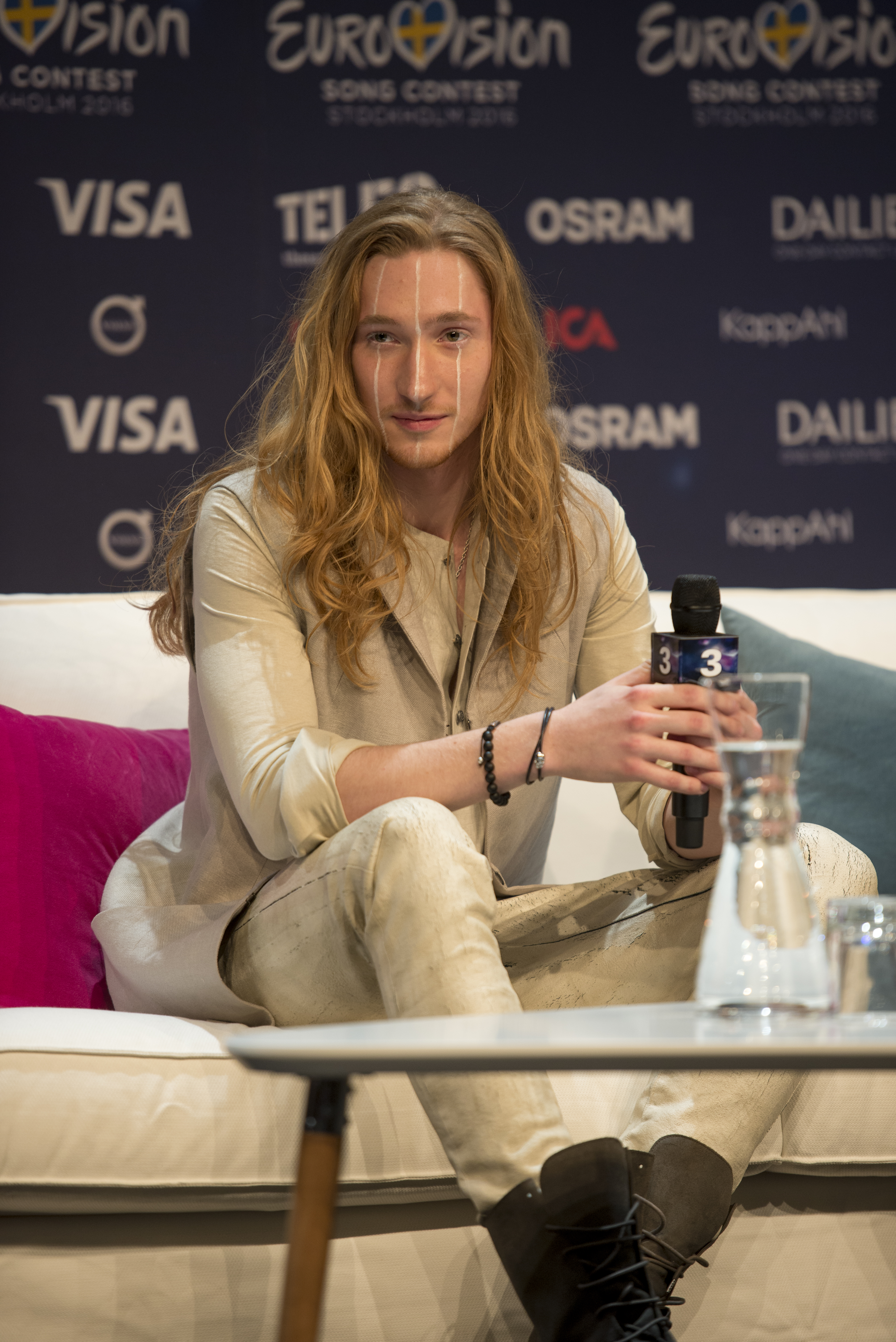 Ivan at a Meet & Greet during the Eurovision Song Contest 2016 in Stockholm. (Help translate this text)